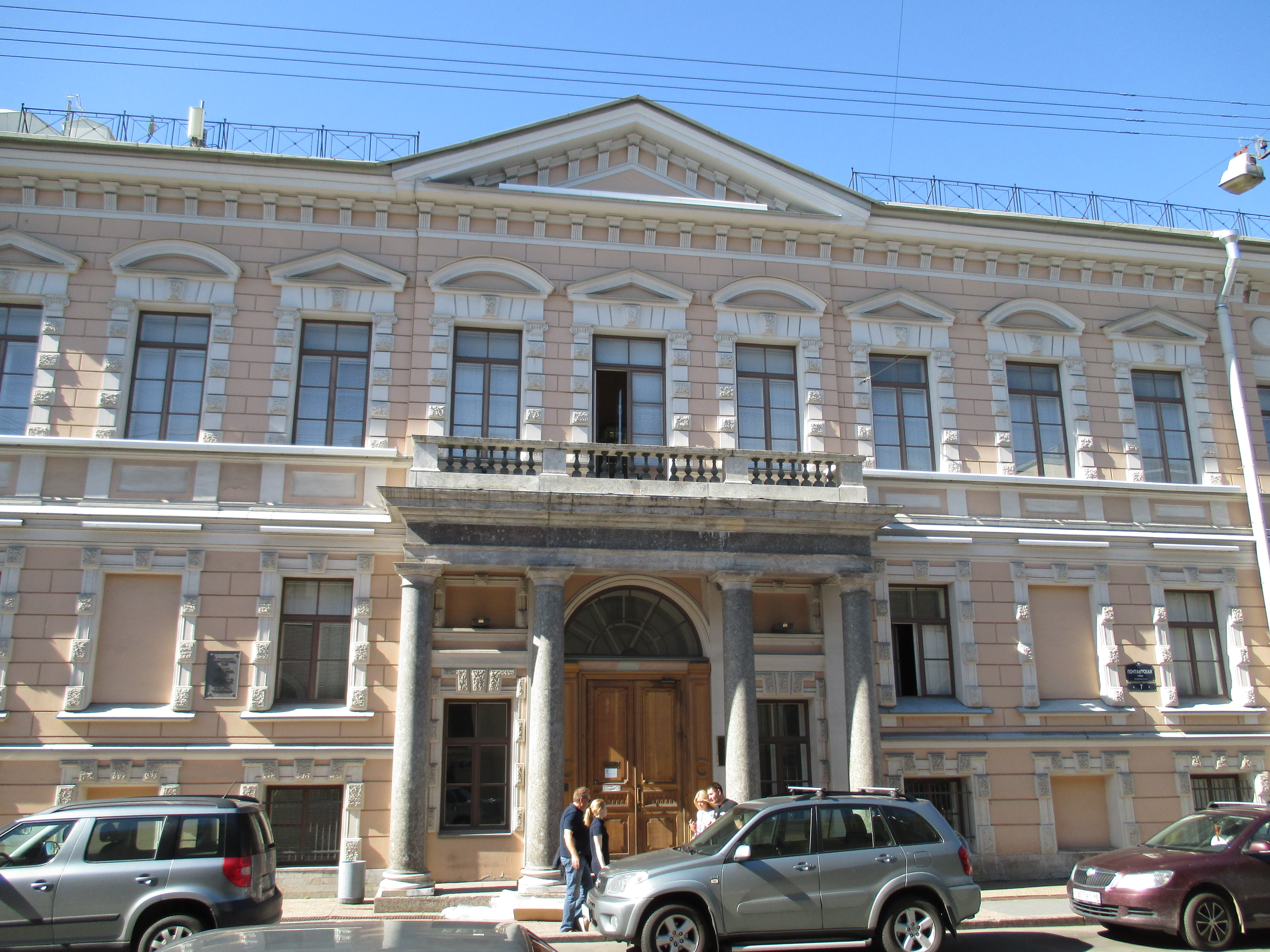 Bezborodko Palace in Saint Petersburg - southern facade main entrance